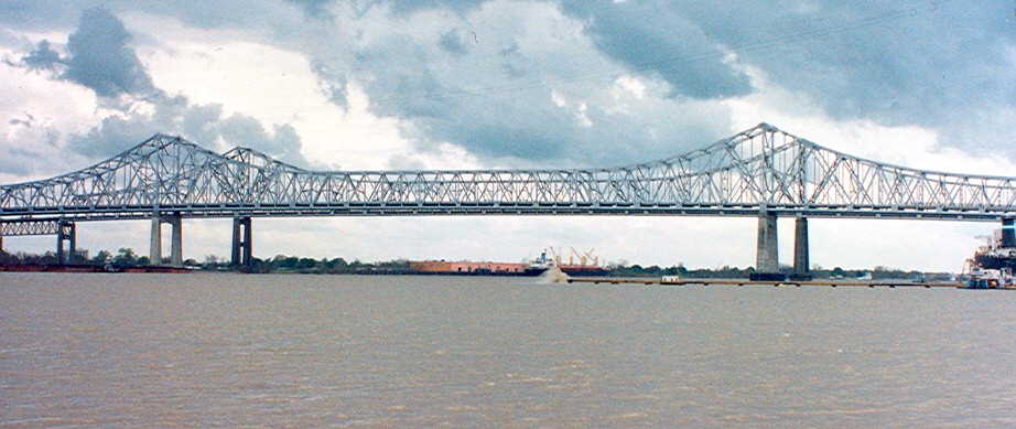 Crescent City Connection, New Orleans, LA. March or August 1992. Source: Gyrofrog